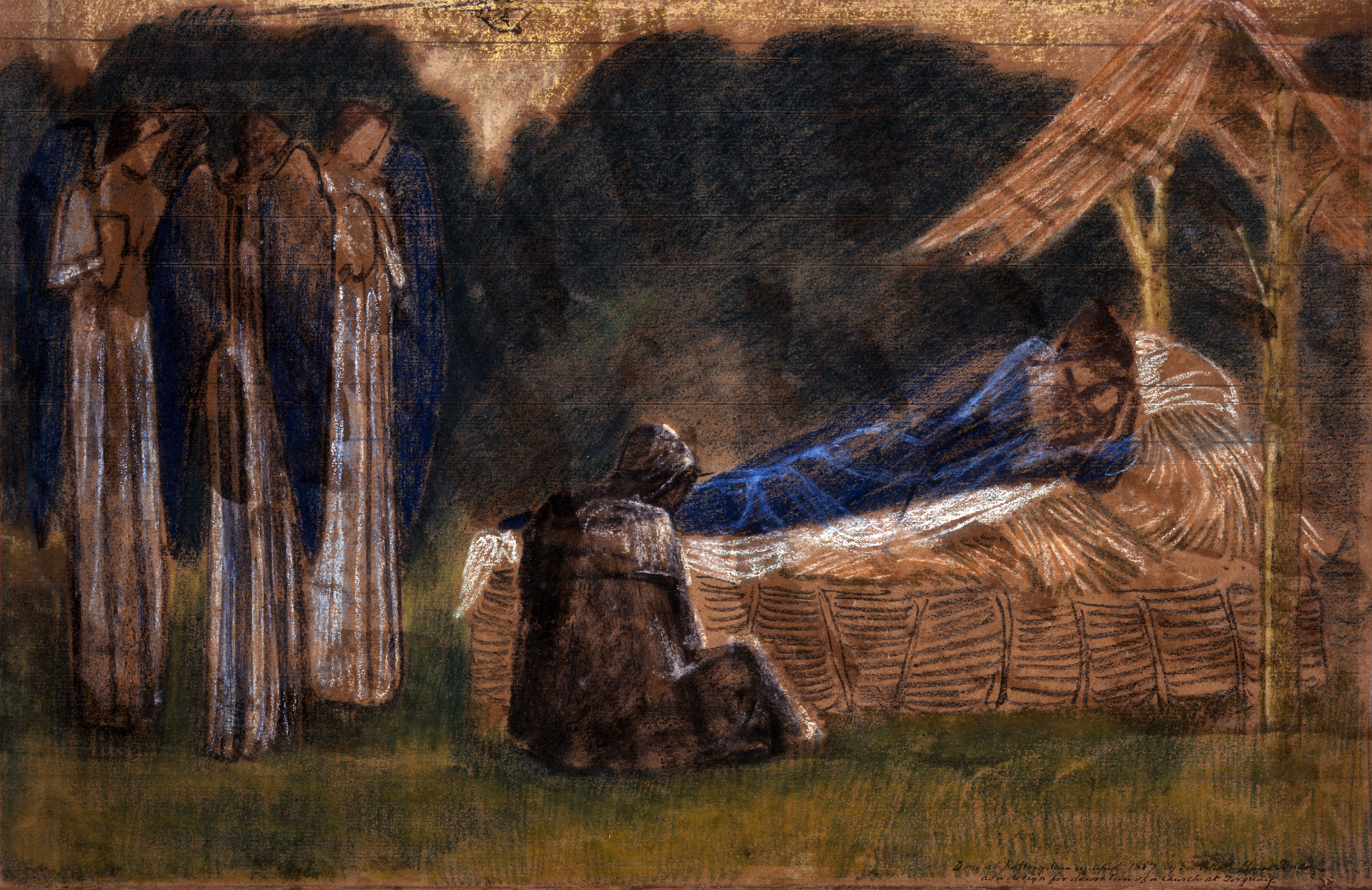 Design for Decoration from St John's Church, Torquay. Part of the Garman Ryan Collection